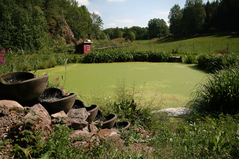 Flowforms sewage treatment pond — in Vidaråsen Landsby, Andebu, Norway